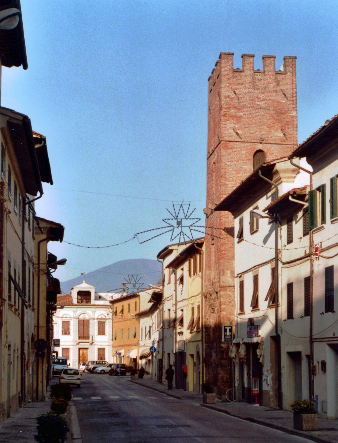 Calcinaia, Province of Pisa, Italy - Town center